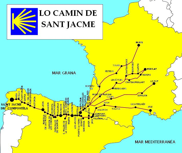 Roads to Santiago de Compostela